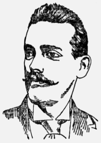 An illustration of baseball player George Stallings from the March 7, 1894, edition of the Nashville Banner